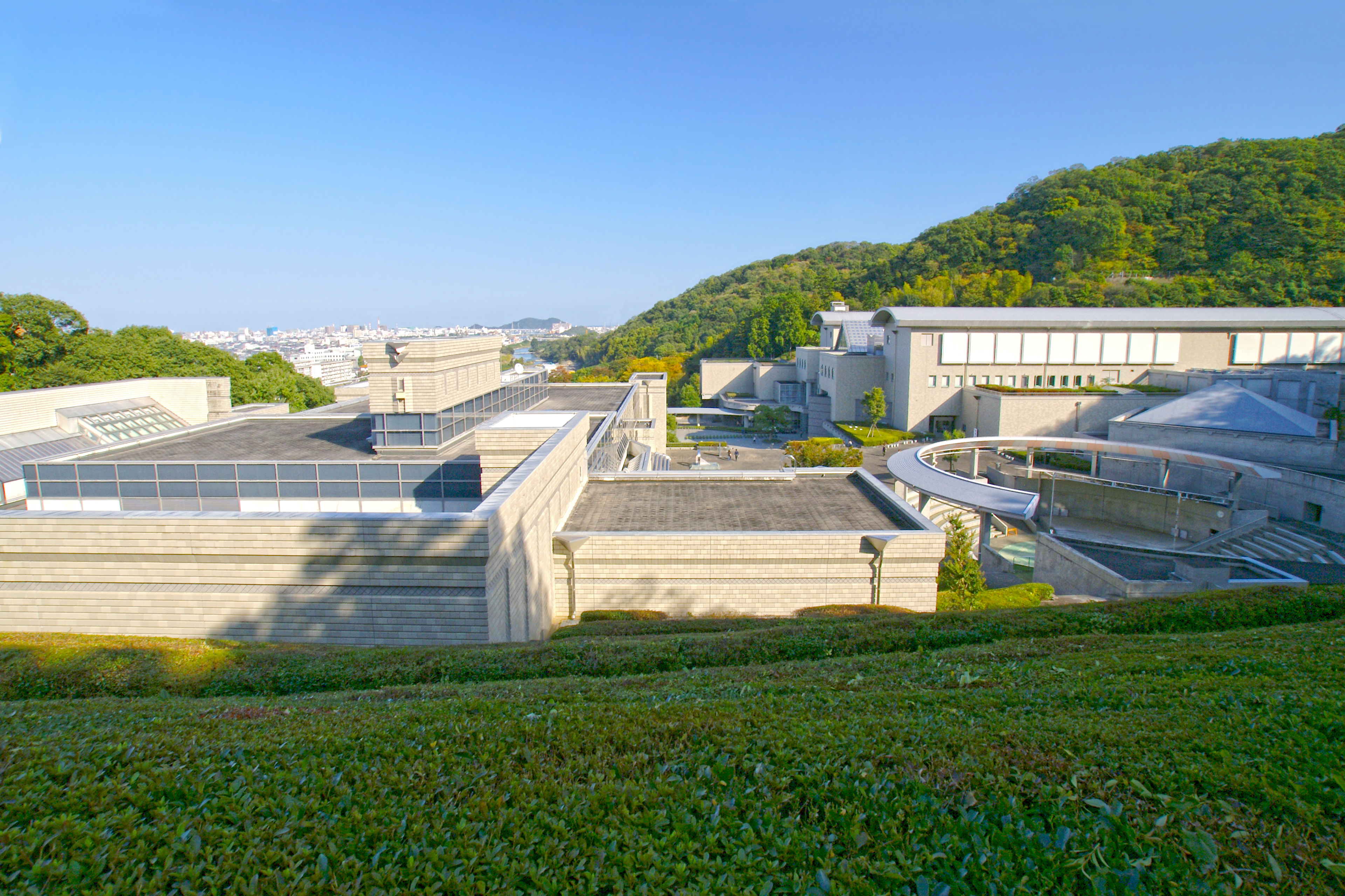 Tokushima Prefectural Library of Tokushima Bunka-no-Mori Park in Tokushima, Tokushima prefecture, Japan.